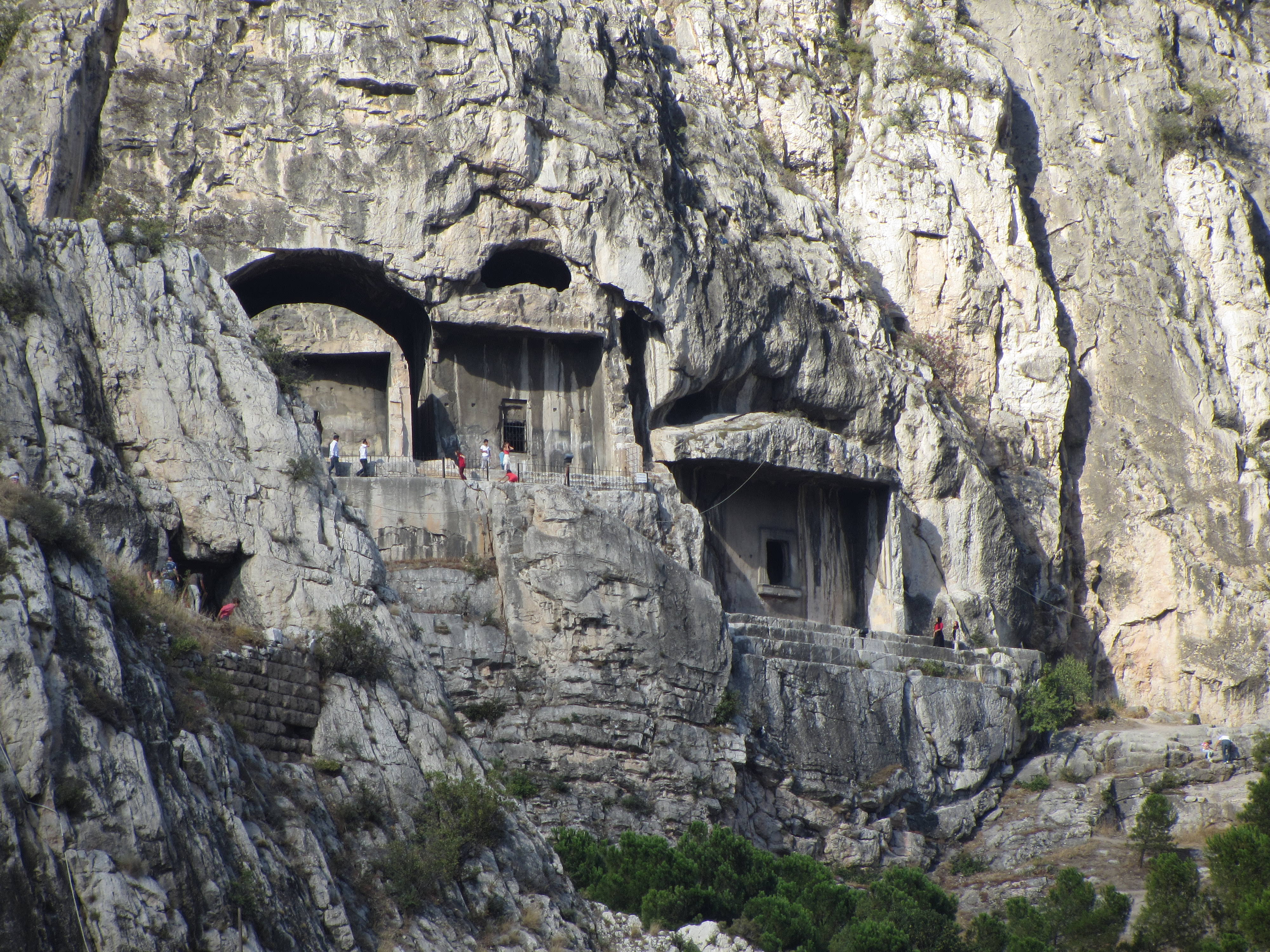 Pontic graves